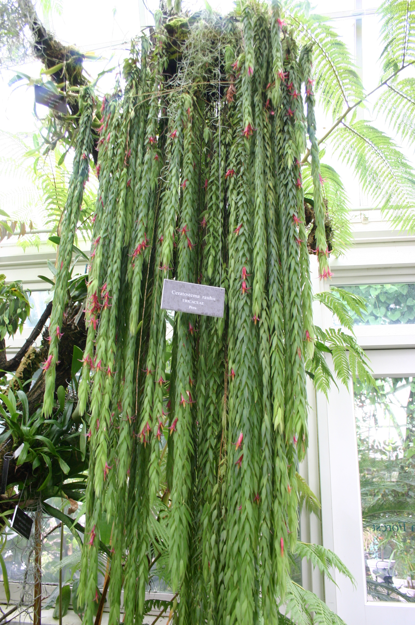 Taken at the New York Botanical Gardens in the Bronx. Creative Commons photo by ideonexus. Please feel free to reuse for any purpose!